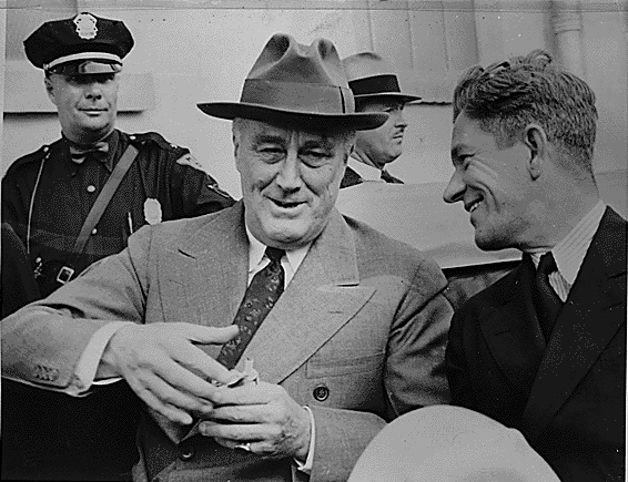 Franklin D. Roosevelt and Mayor Robert R. Williams of Miami, Florida, 12/05/1937